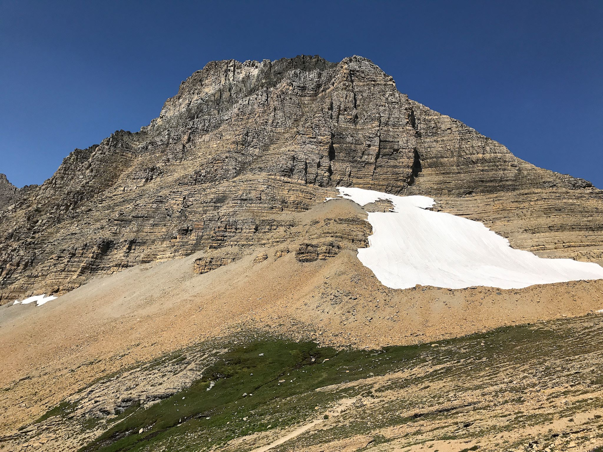 Looking up at Matahpi Peak, Glacier Park, Montana